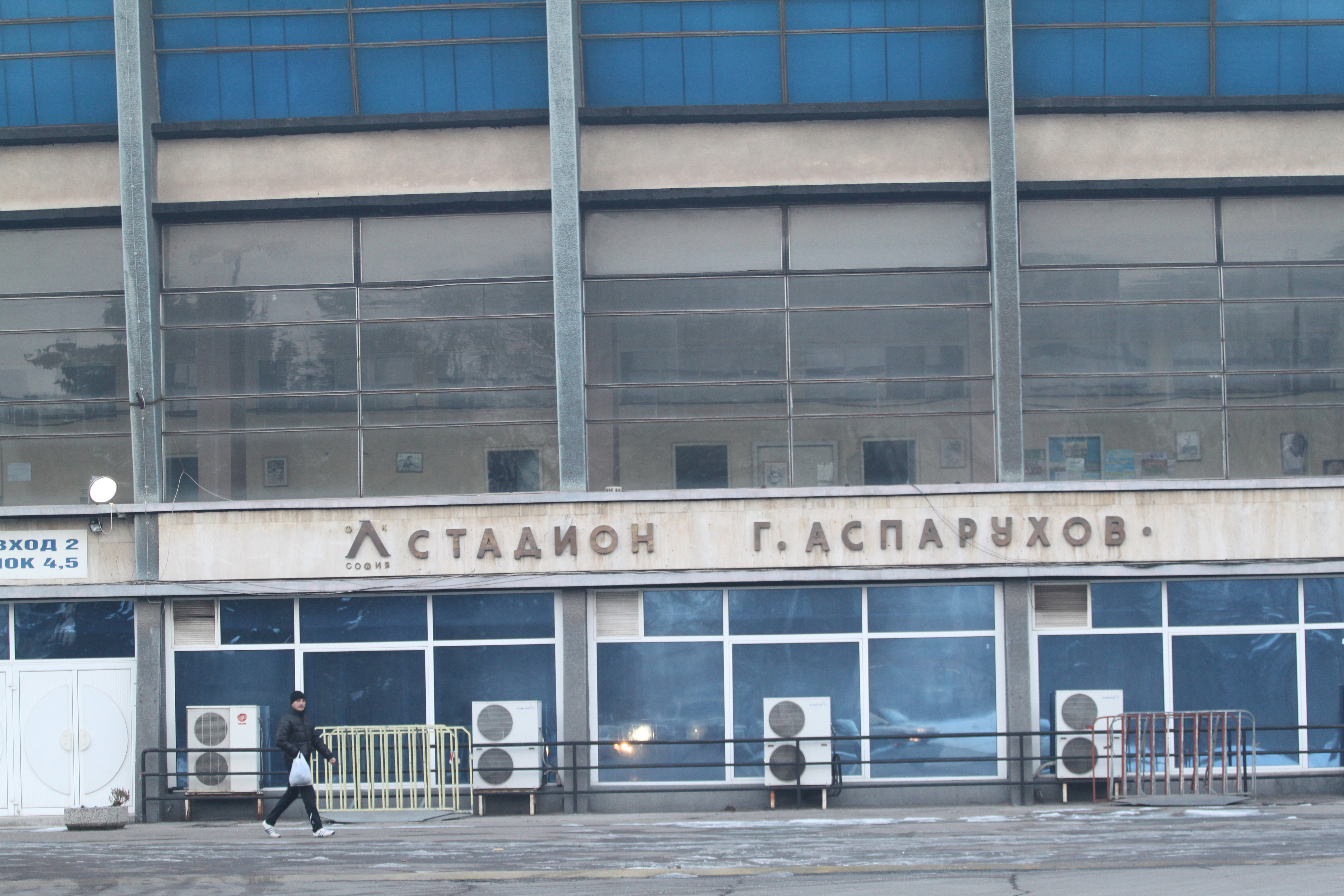 Georgi Aspauhov Stadium, Sofia, Bulgaria